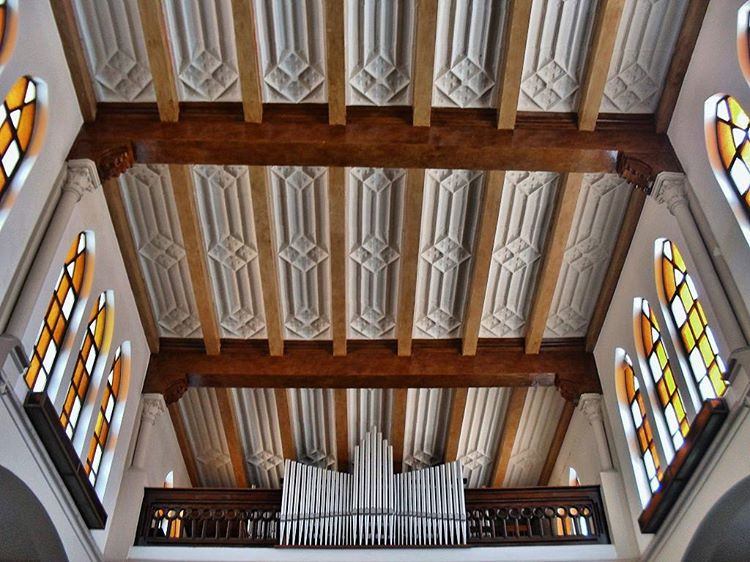 CAPILLA UCSAR